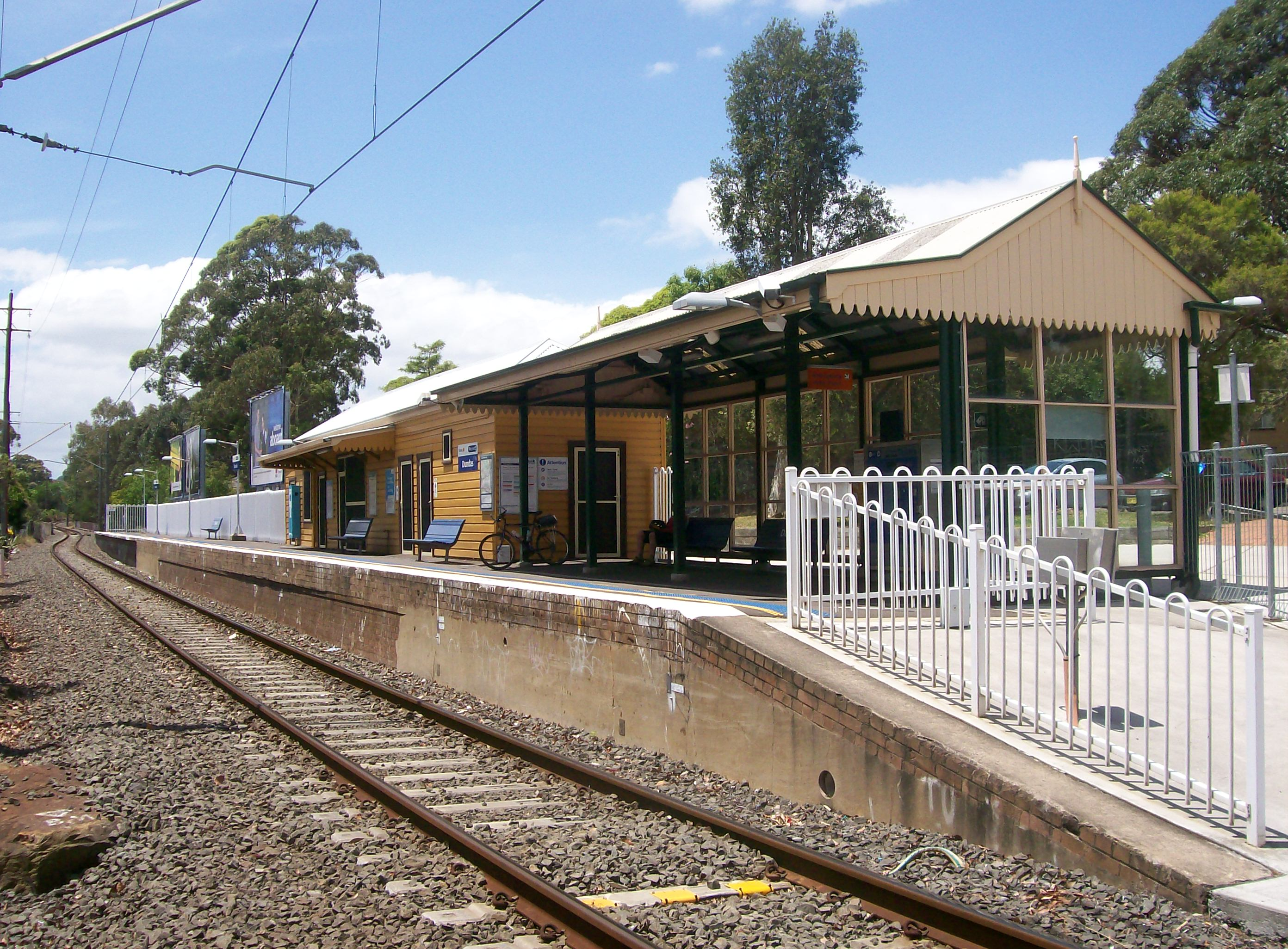 Dundas railway station